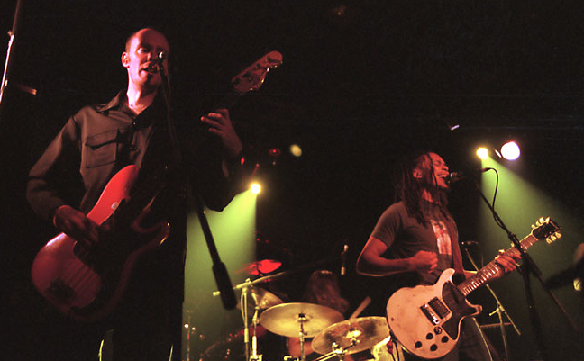 Evans and Hogg, performing with Moke in Austin, Texas